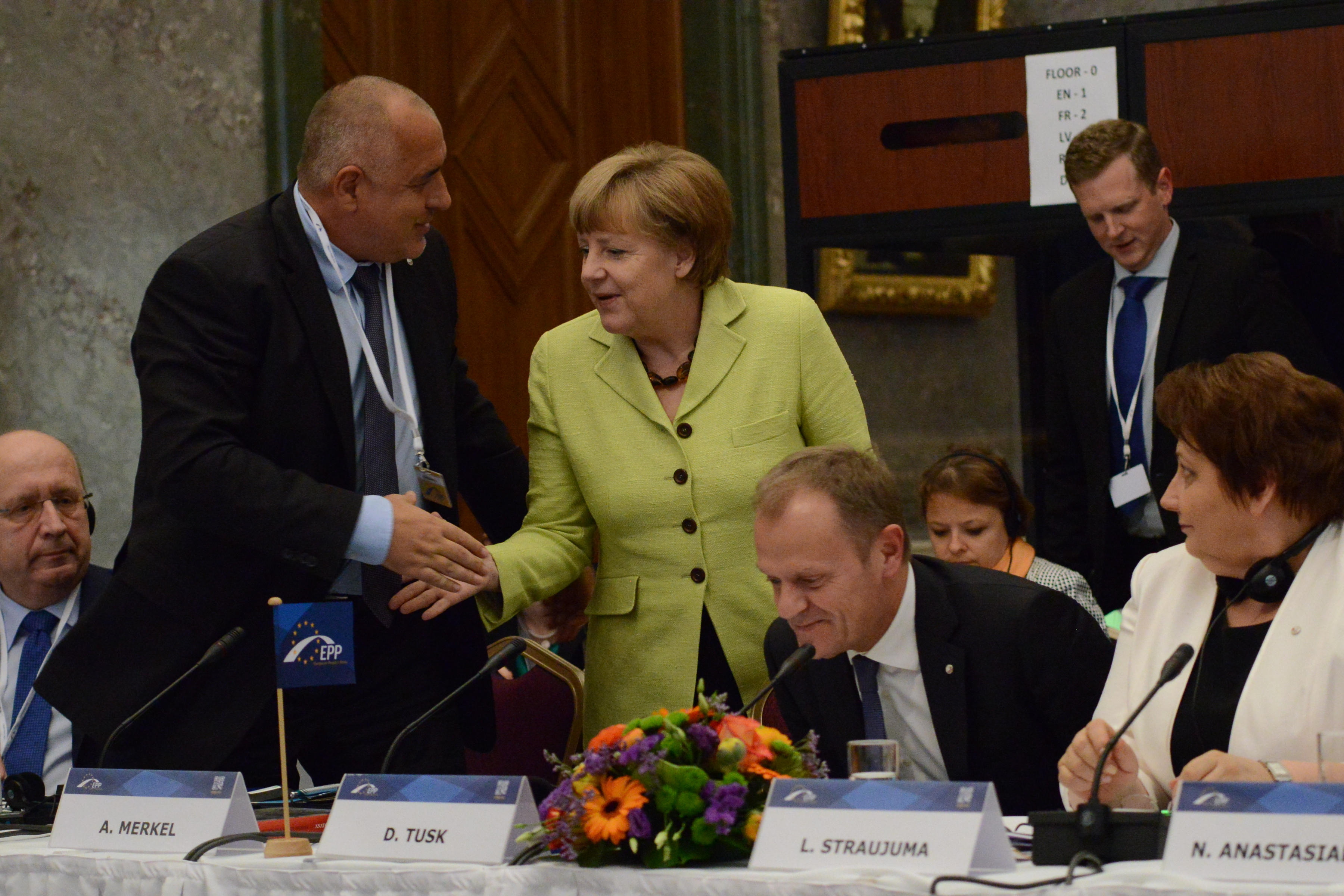 EPP EaP Leaders' Meeting - 21 May